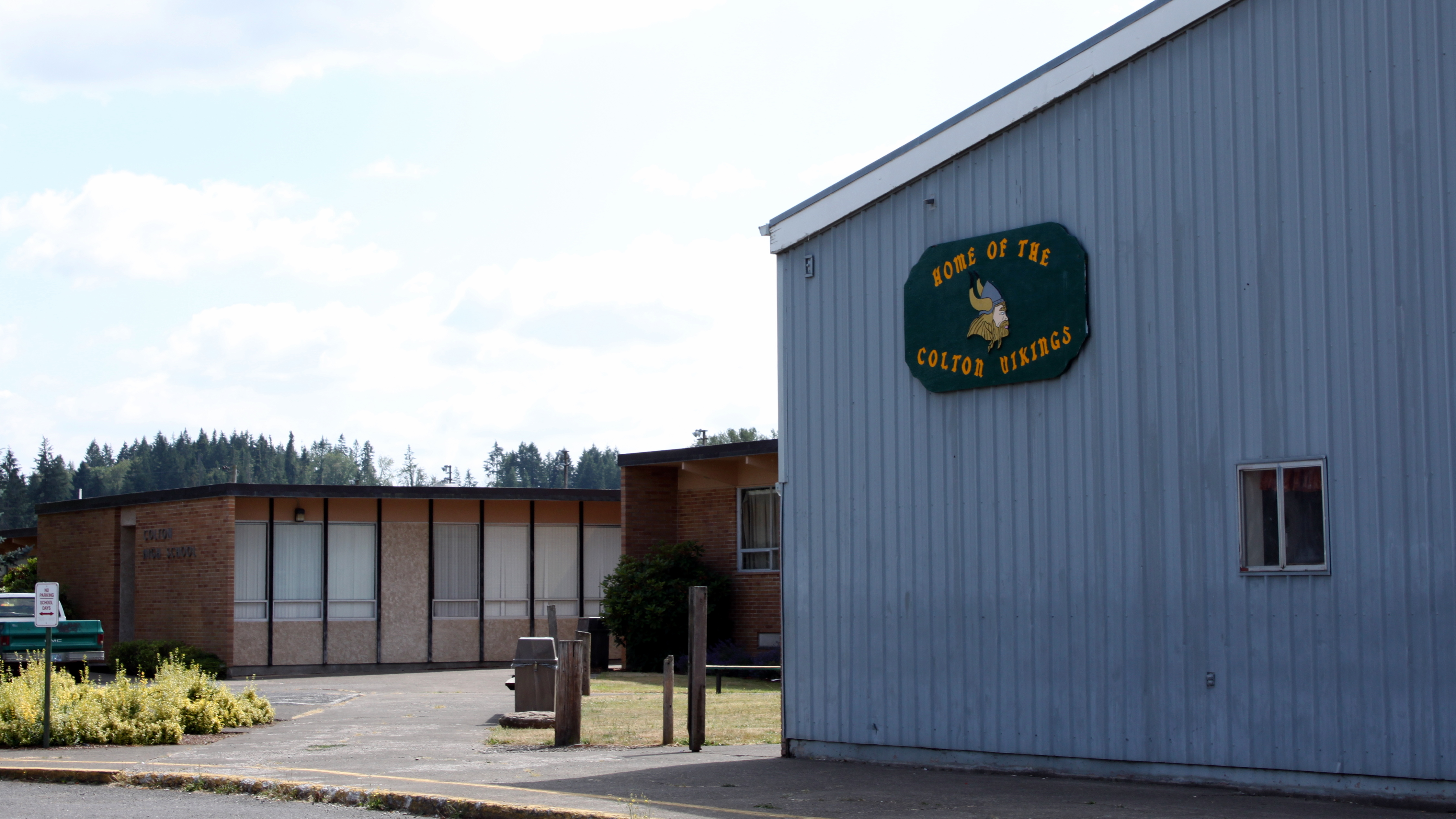 Gymnasium and entrance to Colton High School in Colton, Oregon.